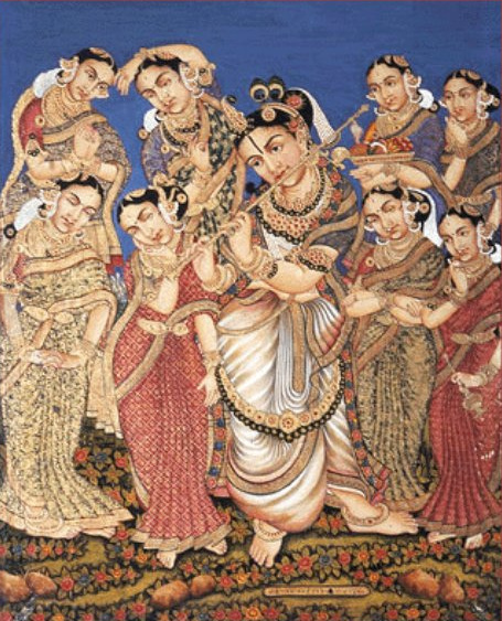 Ashta Bharya Krishna - 19th Century Mysore Painting depicting Krishna with his eight favourite consorts.